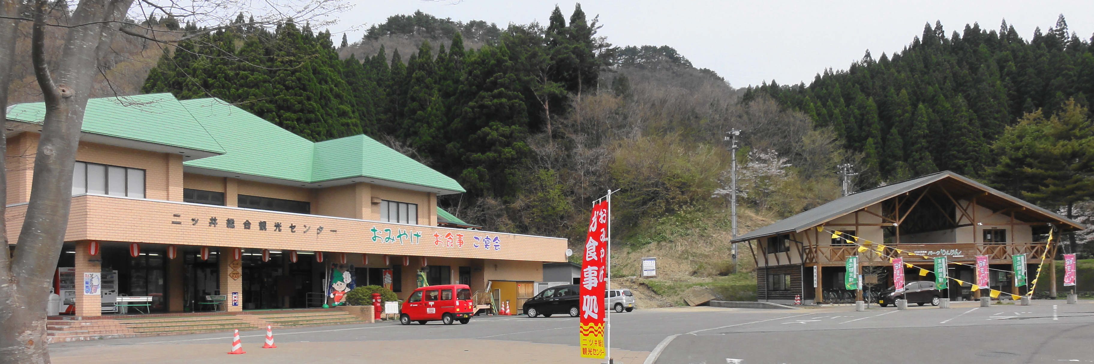 Road to station Futatsui, Akita prefecture, Japan